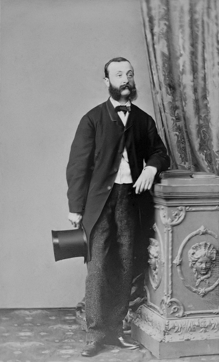 Jhr. Willem Jan van Eys (1825-1914), taalgeleerde in het bijzonder van het Baskisch, jeugdvriend van Abraham Willet, 1850 - 1899